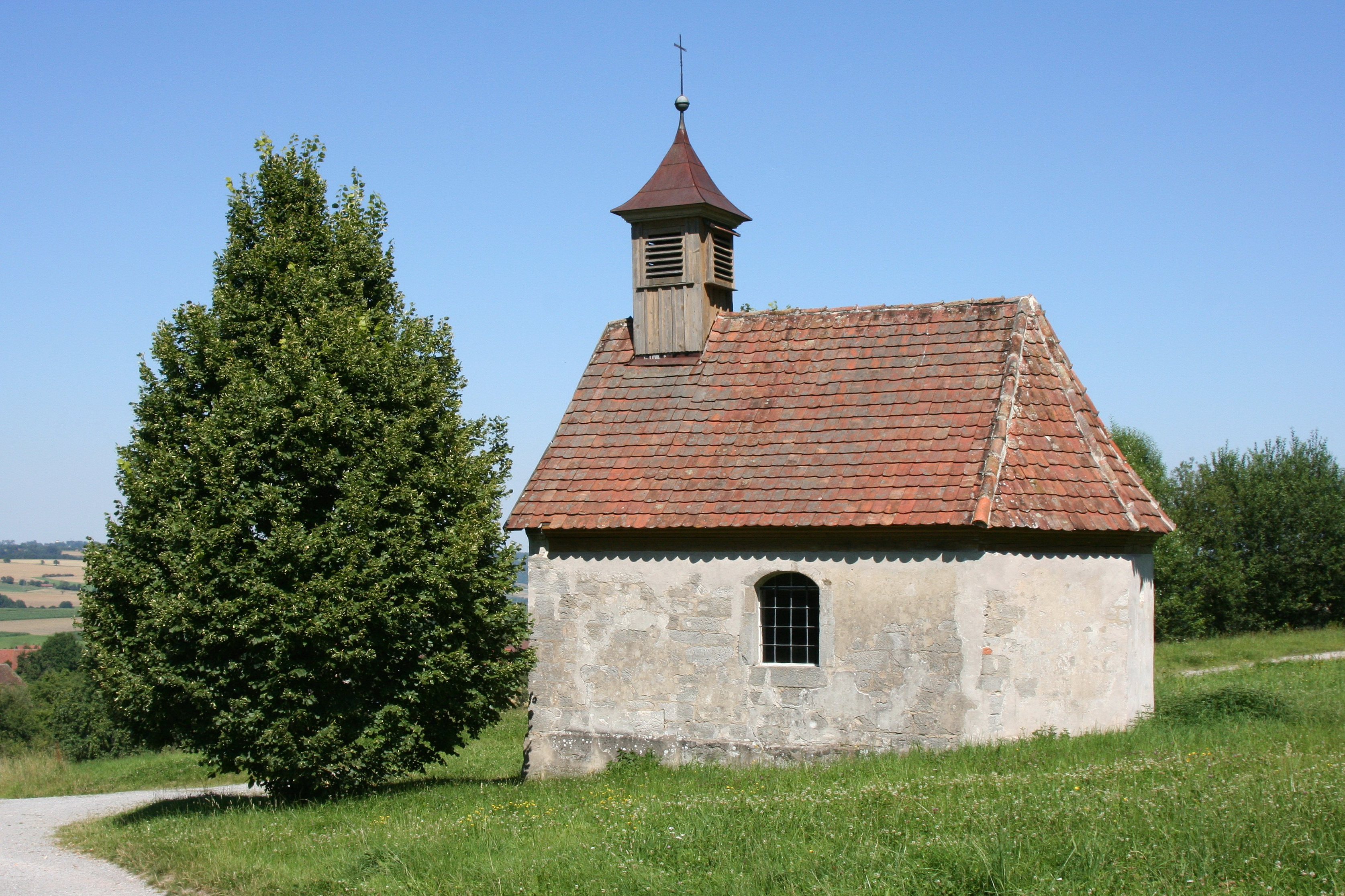 Catholic chapel from Adelmannsfelden-Stöcken, exhibited in the open-air museum Wackershofen